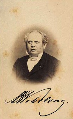 Danish architect Niels Sigfred Nebelong (1806-1871)